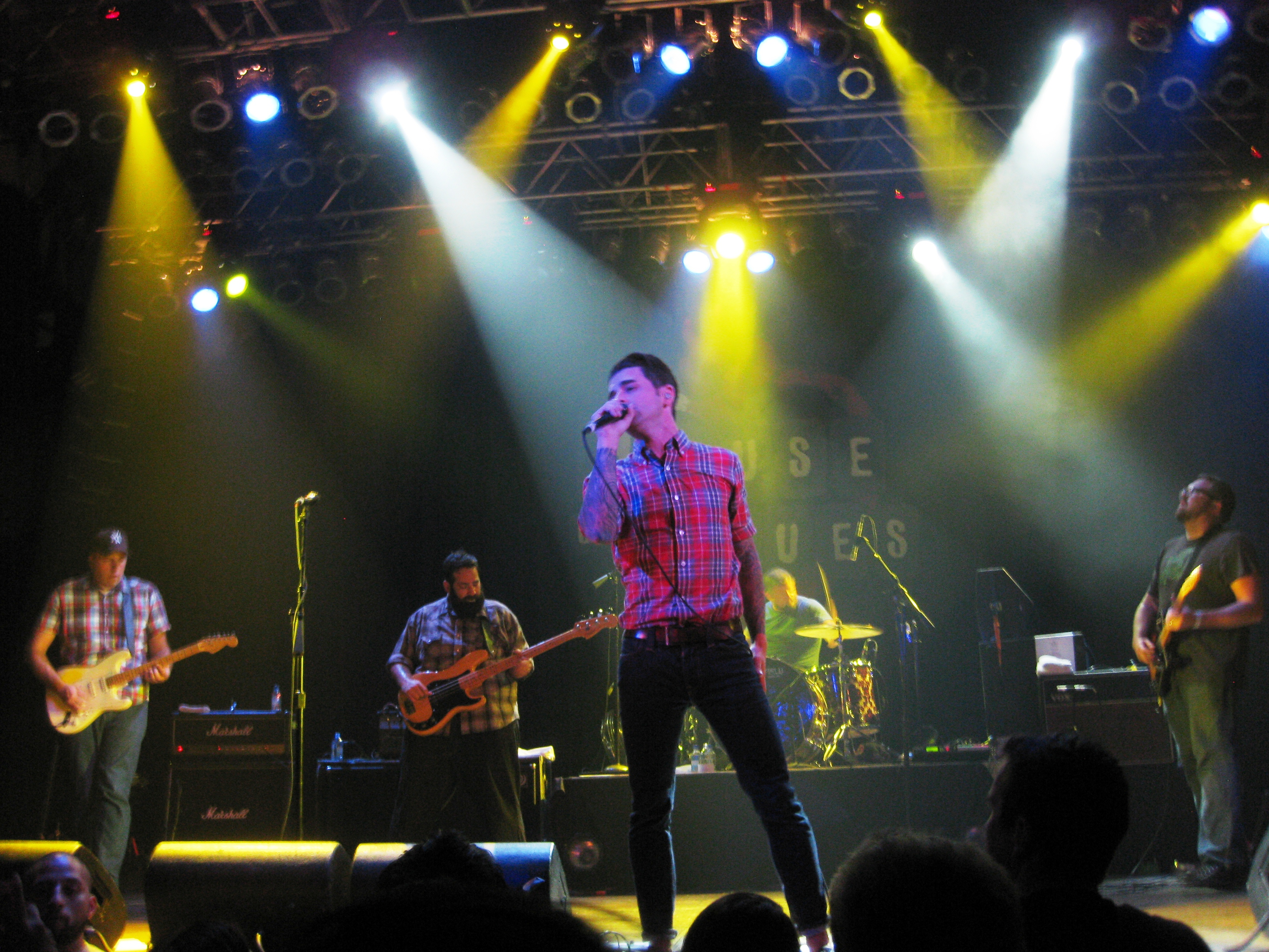 Further Seems Forever performing October 28, 2012 at the House of Blues in Anaheim, California. Left to right: guitarist Nick Dominguez, bassist Chad Neptune, singer Chris Carrabba, drummer Steve Kleisath, and guitarist Josh Colbert.